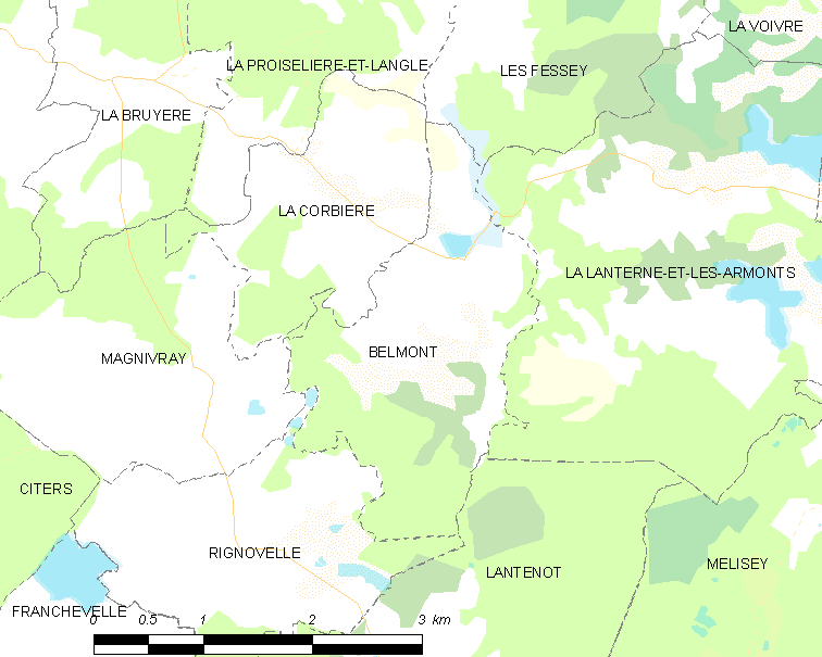 Map of French municipality